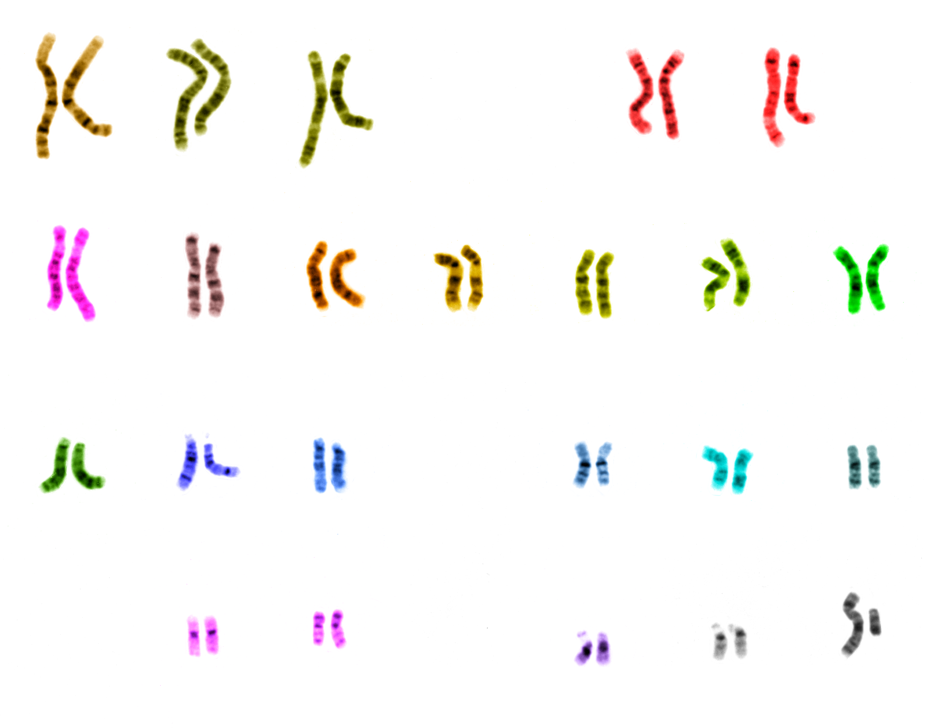 Human chromosomes, coloured by UCSC browser default colours.